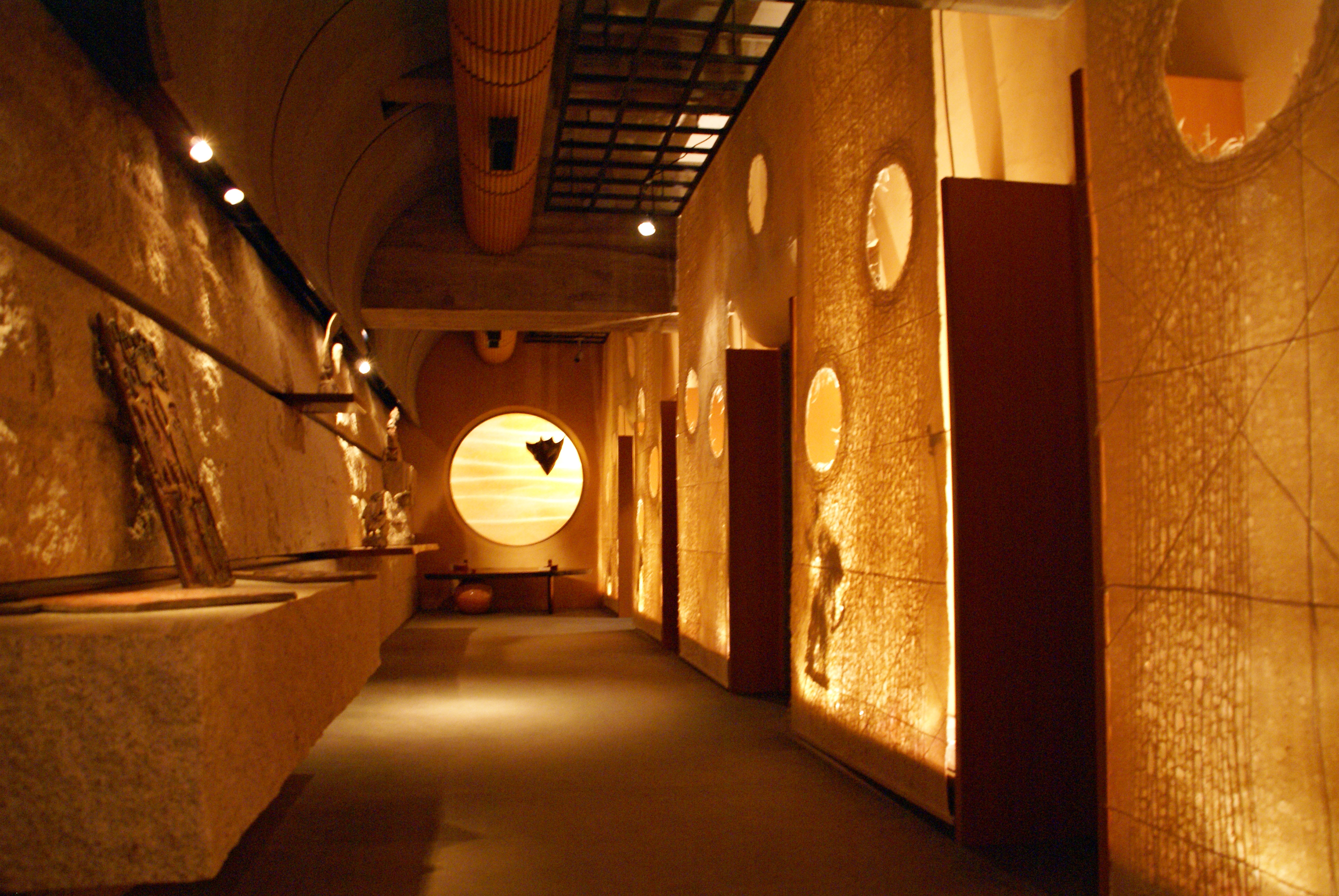 Houn Memorial Museum in Kobe, Hyogo prefecture, Japan